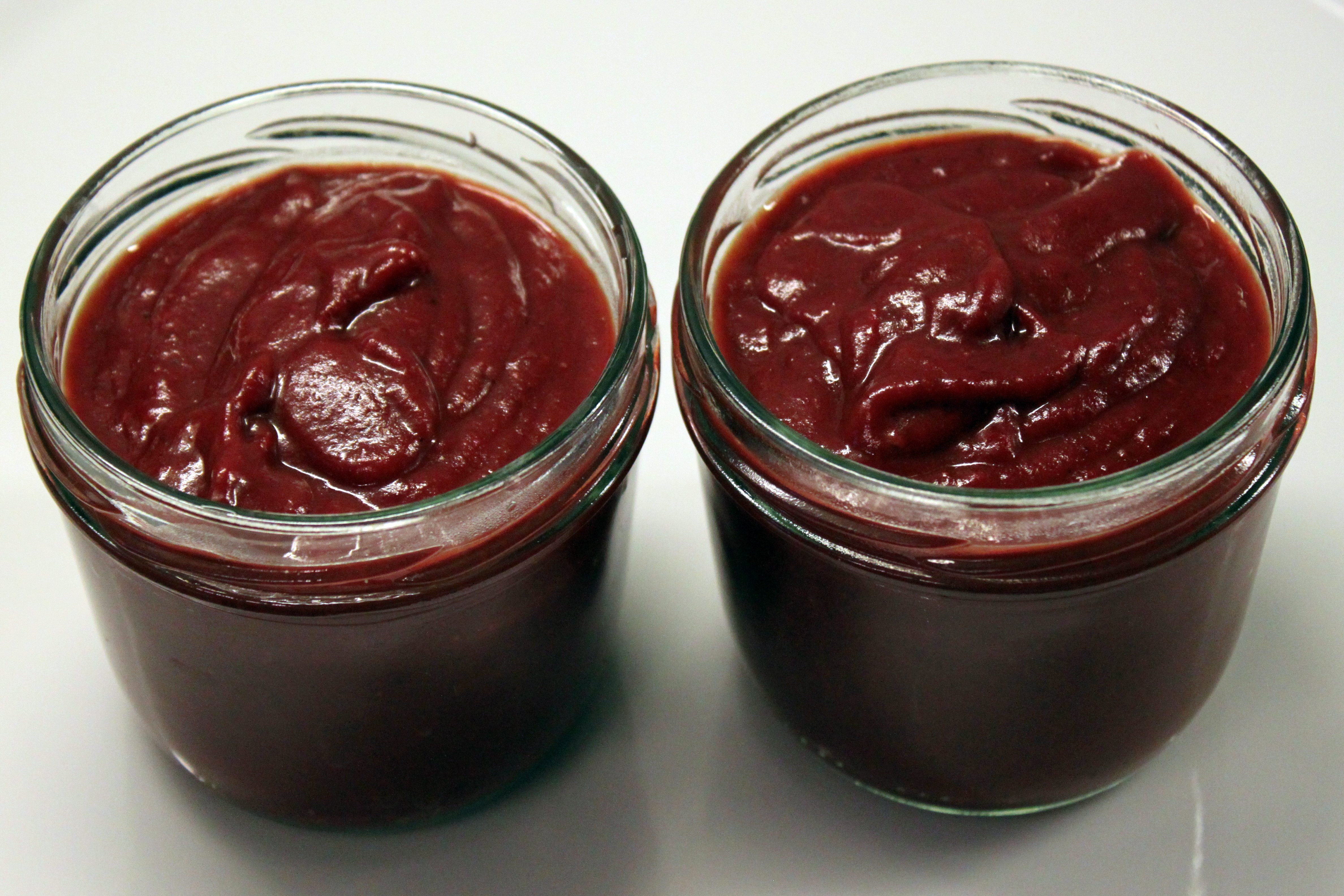 Strawberry Ketchup